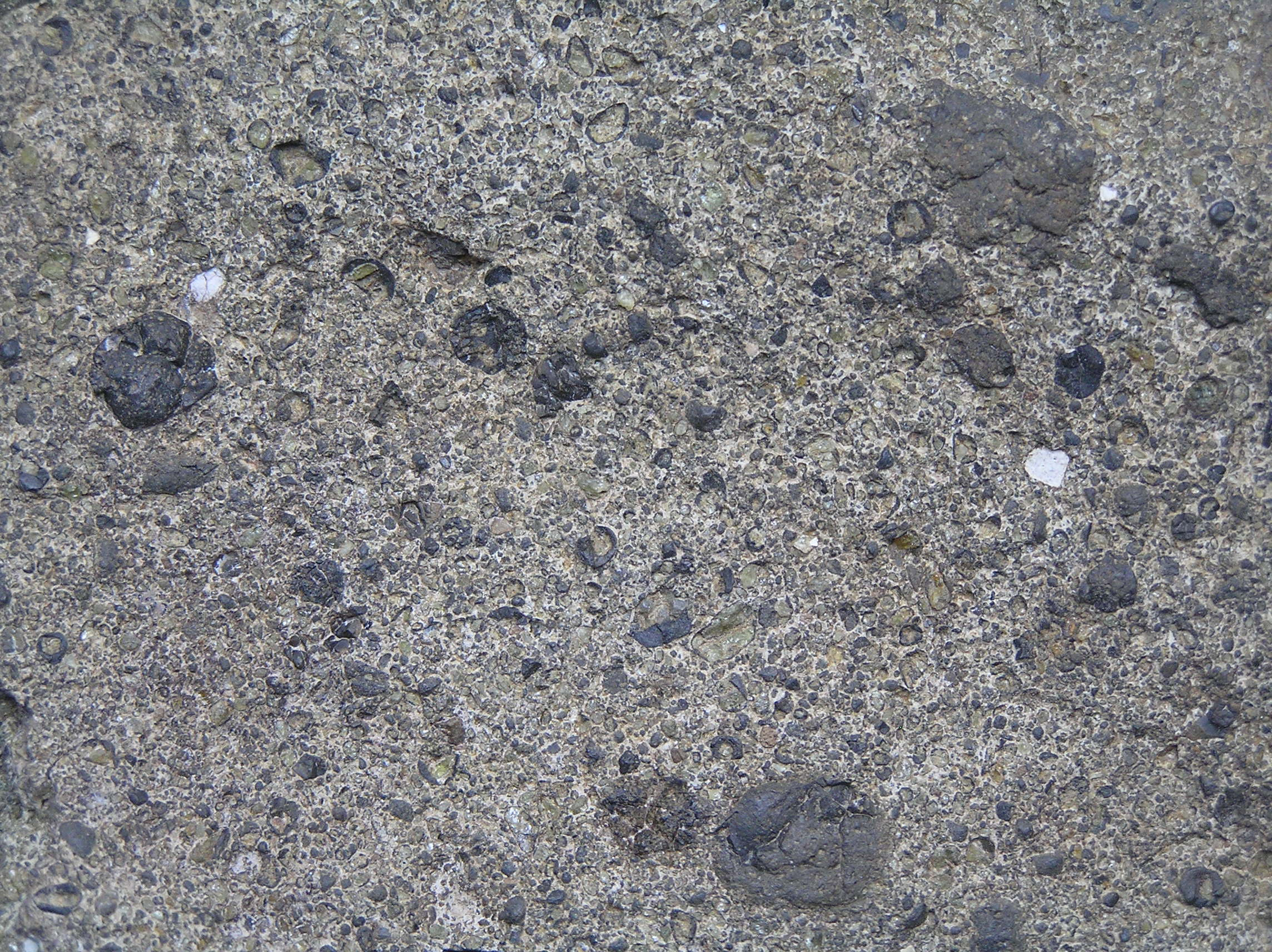 Tuffit